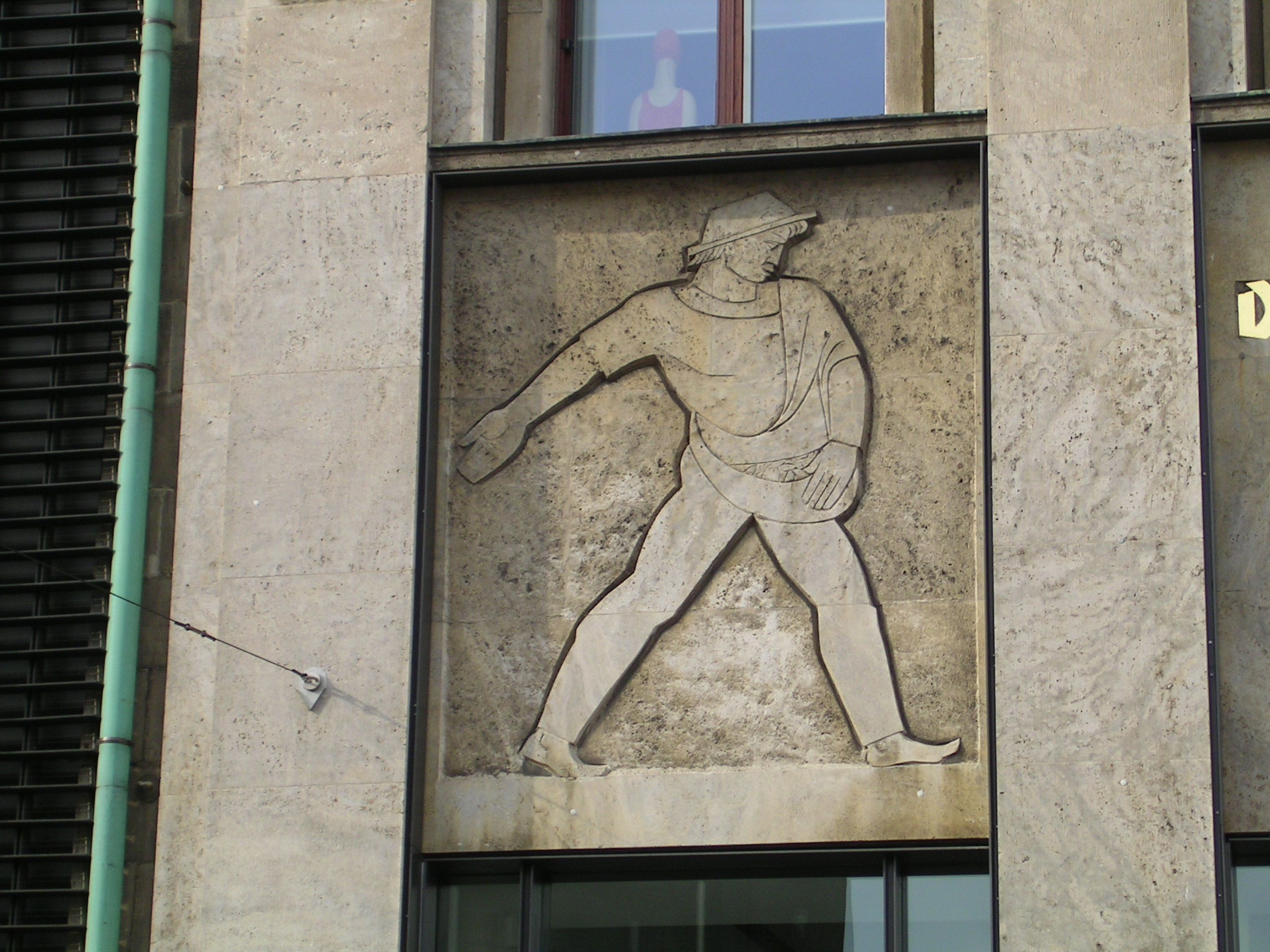 information plate Sparkasse, Am brill, Bremen User:Tarawneh/rami